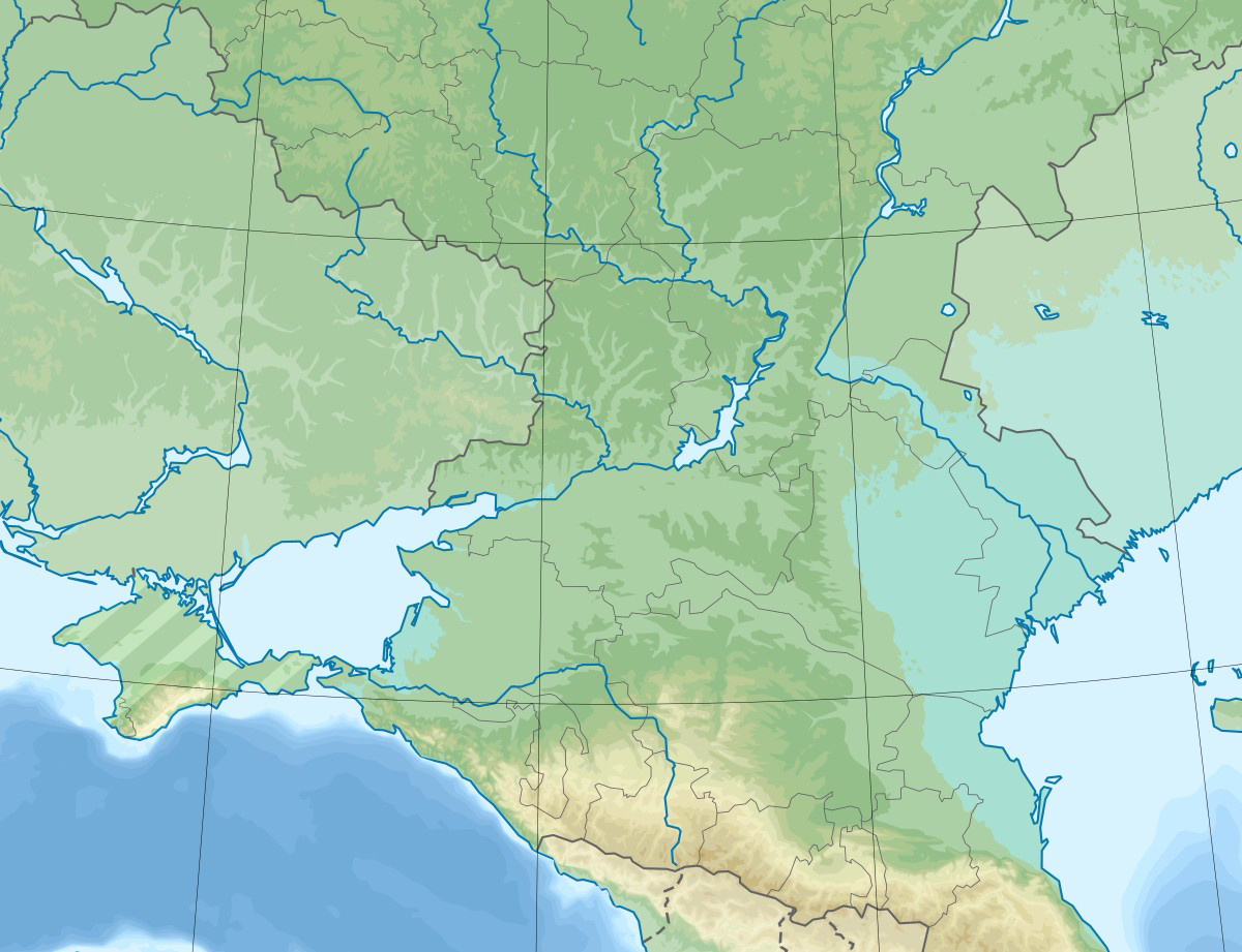 Physical map of the Southern Federal District in Russia.